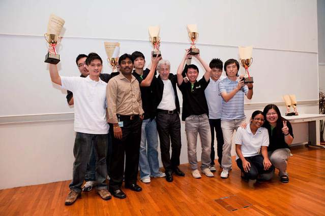 The brains behind the winning Underwater Robotics submissions with their medals, together with Professor Oussama Khatib of Stanford University, President, International Foundation of Robotics Research.